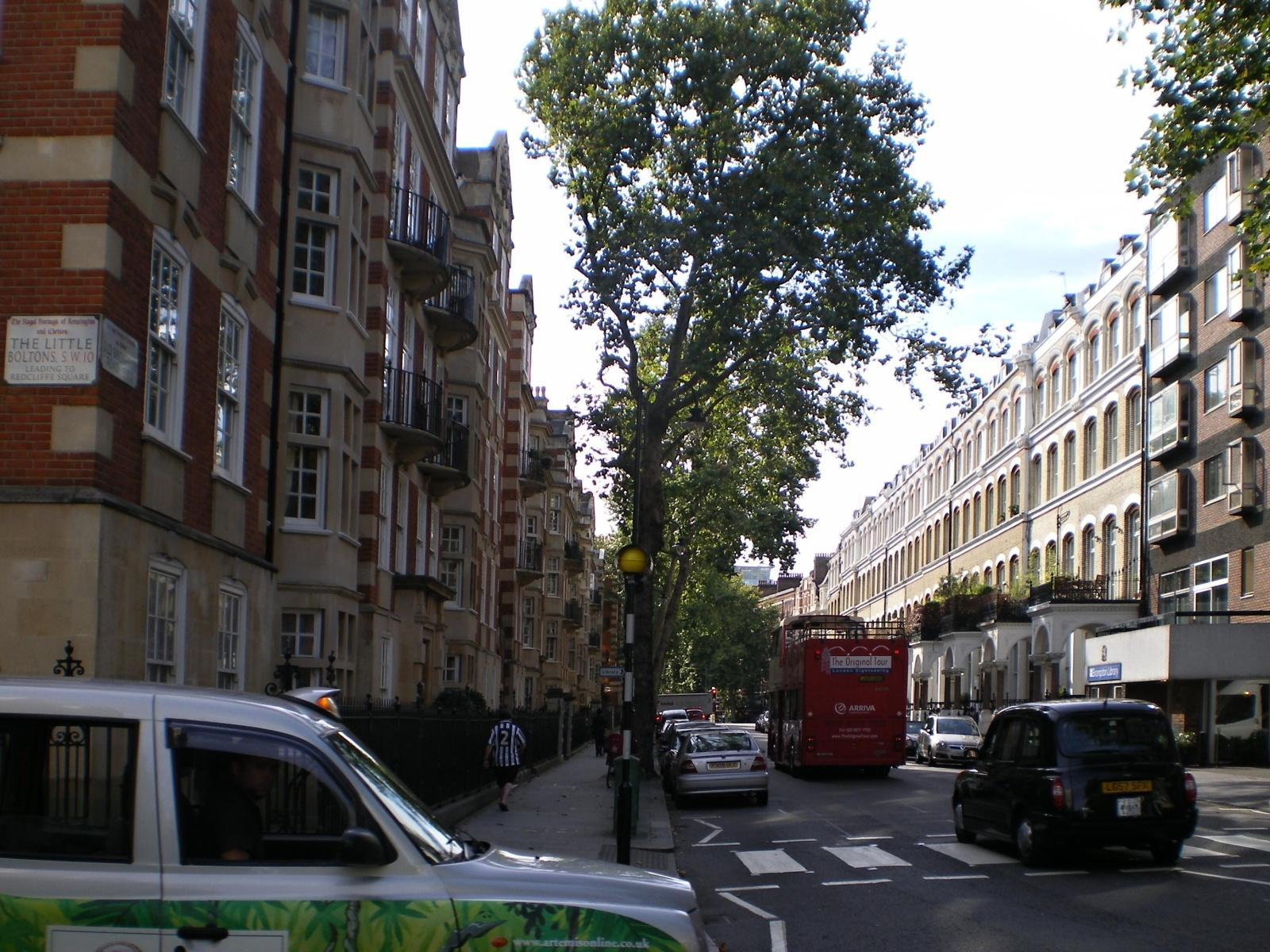 Coleherne Court, Old Brompton Road, London.